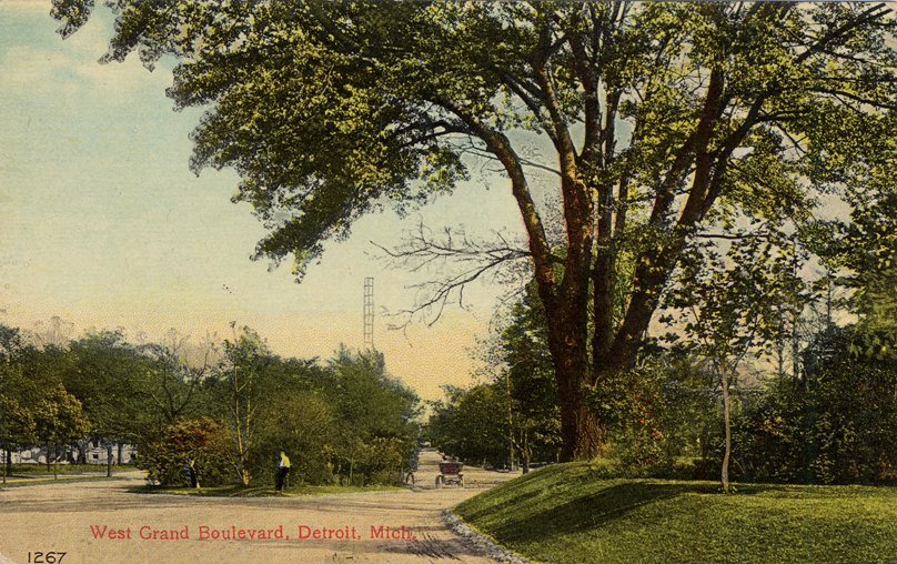 Wide residential road with central island. Trees line street; houses only partly visible. Men landscaping; horse-drawn traveling road. Printed on front: "West Grand Boulevard, Detroit, Mich." Printed on back: "West Grand Boulevard. This beautiful macadamized roadway nearly encircles the city of Detroit, some parts of which are like a parkway on account of its magnificent shade trees. It is kept in most excellent order, to the delight of automobilists." Handwritten on back: "7/19/13."